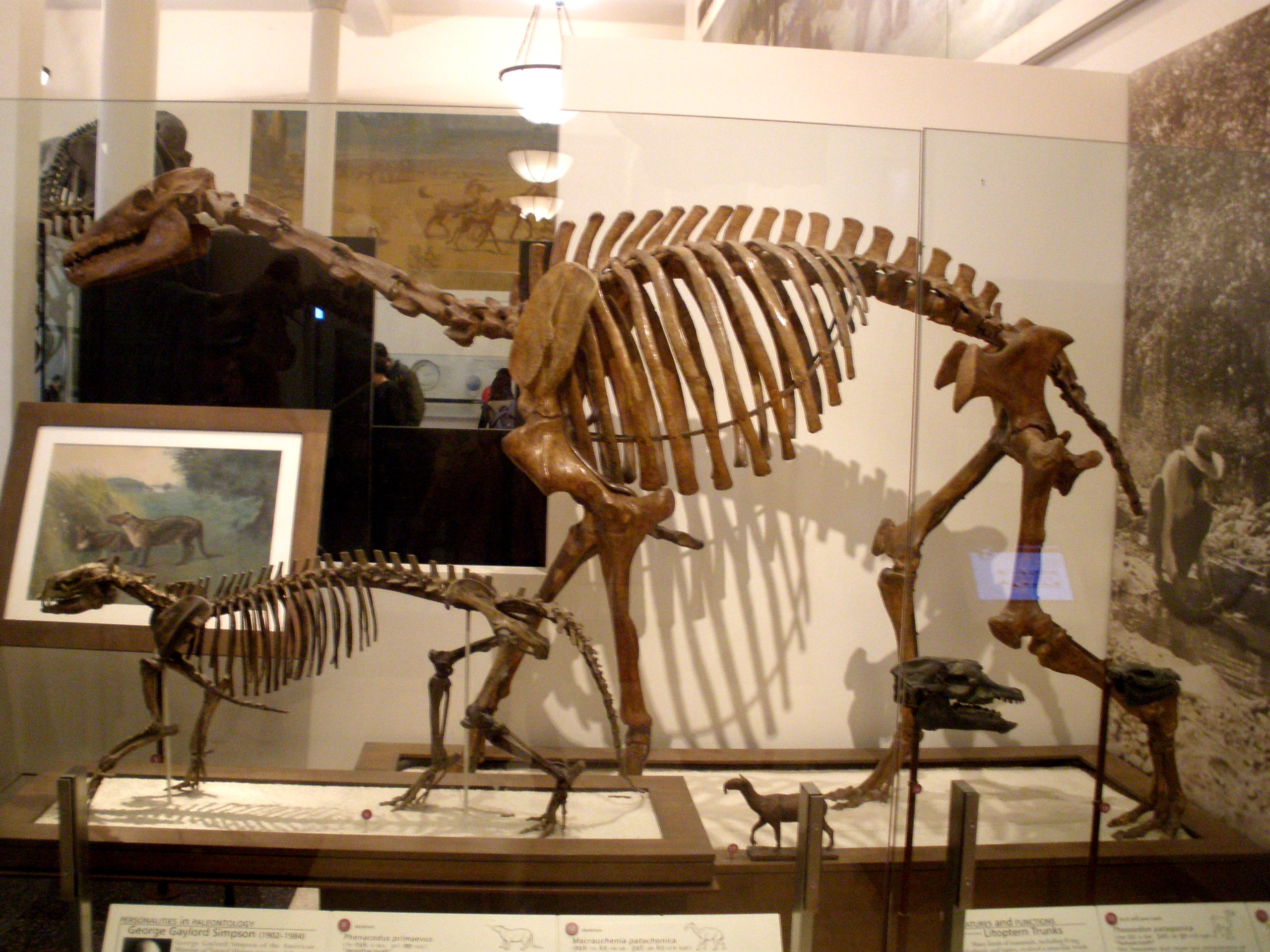 Skeleton of Macrauchenia patagonica, a litopteran, in the "American Museum of Natural History", New York